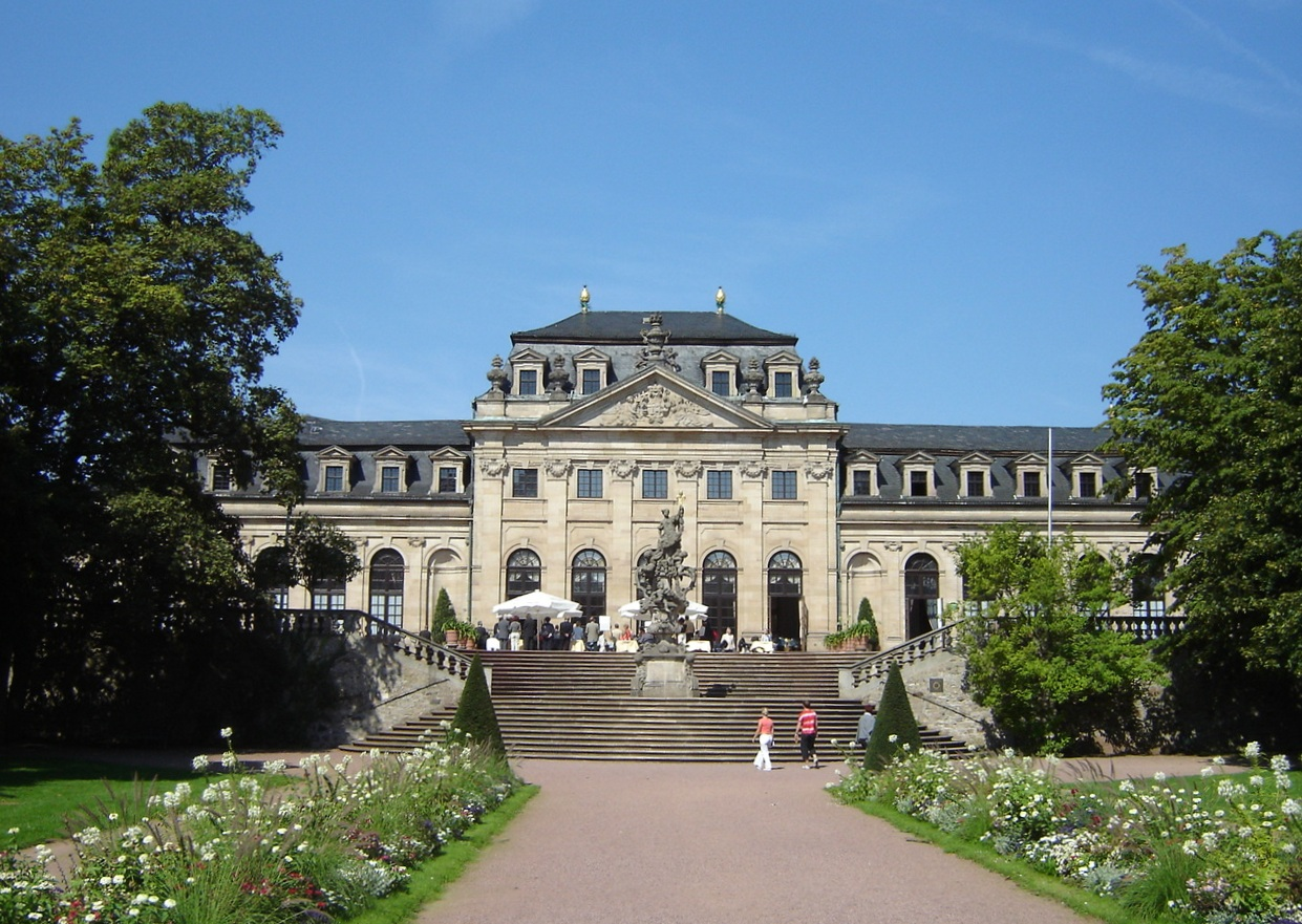 Orangerie in Fulda, Germany.